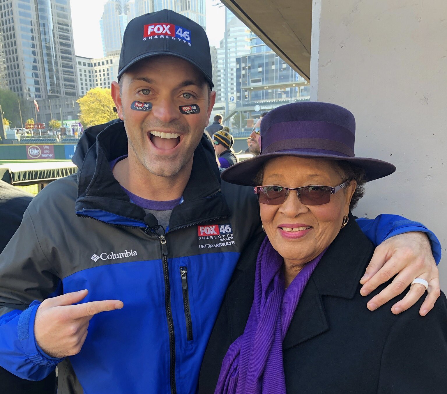 Exchanged a few dance moves with @FOX46Nick of @FOX46News this morning at the Walk to End Alzheimer’s - together, we can #ENDALZ!